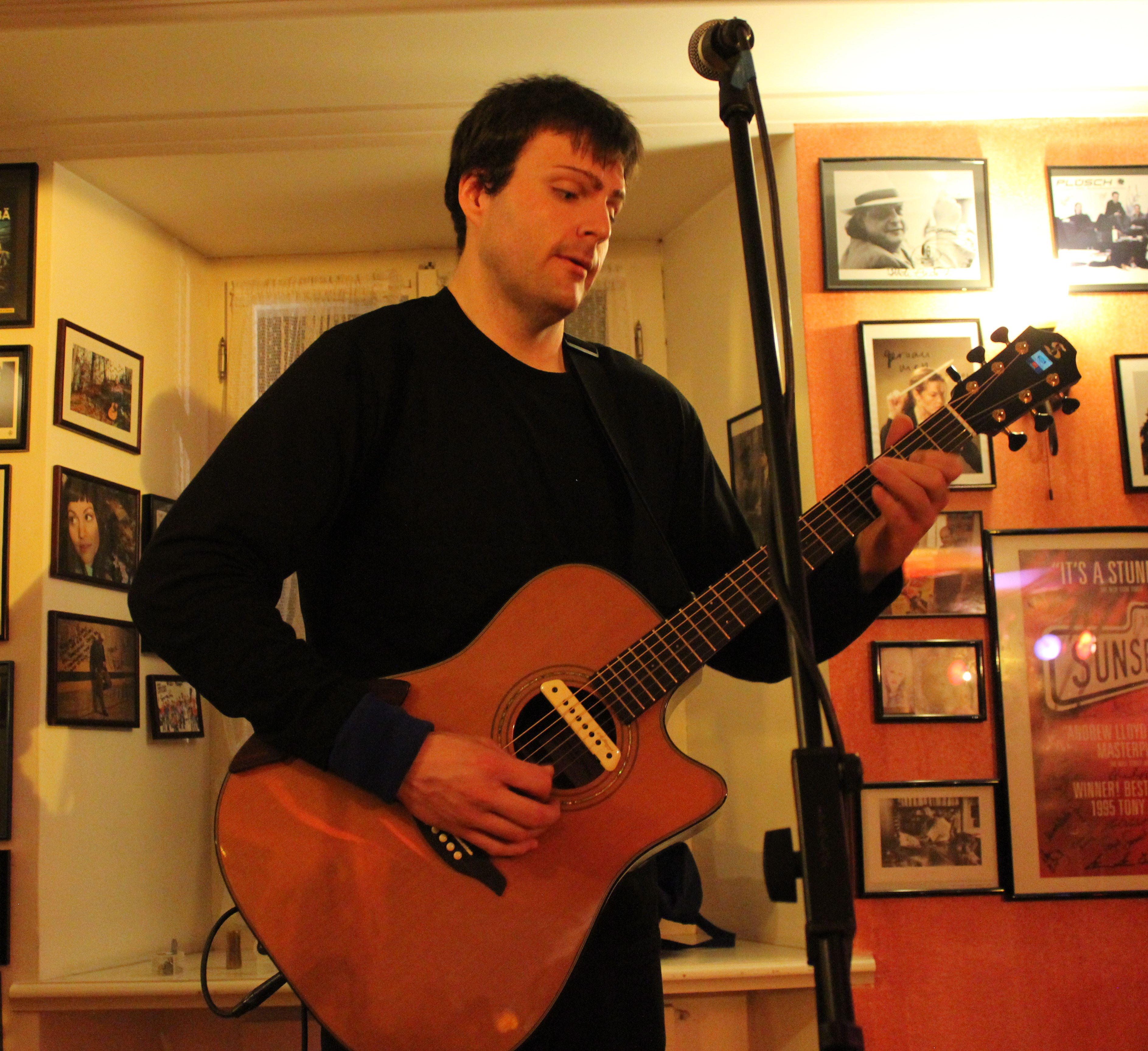 Canadian fingerstyle guitarist Ewan Dobson performing in Gersau, Switzerland, on his 2014 European Acoustic Metal Tour.